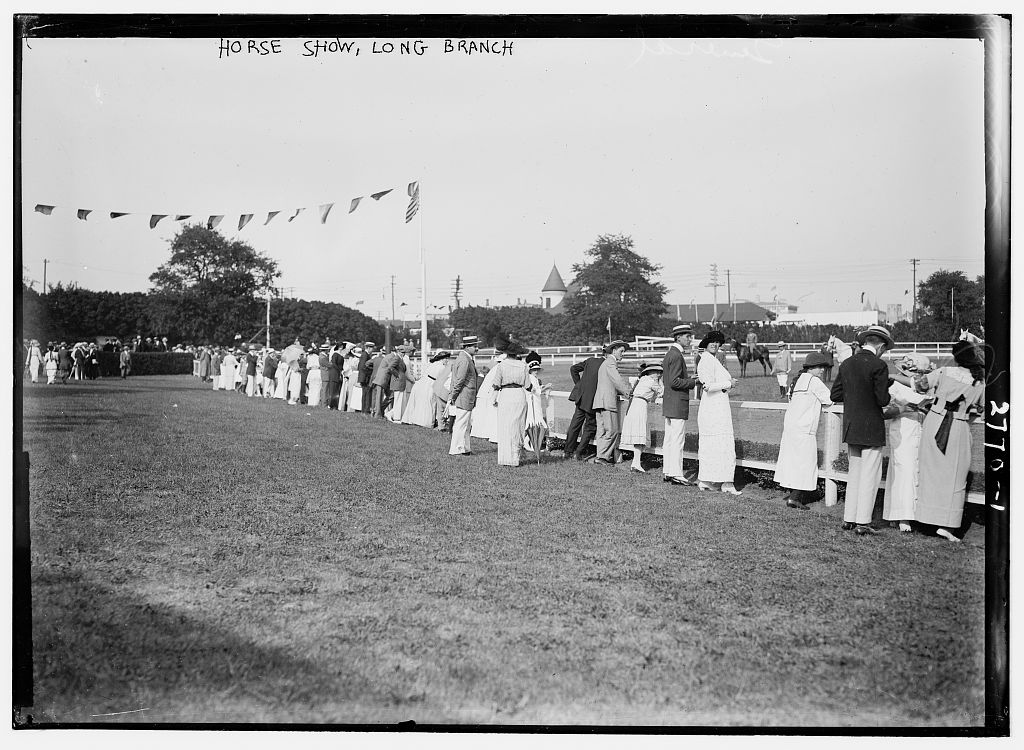 Long Branch Horse Show 1 negative : glass ; 5 x 7 in. or smaller. Notes: Title from data provided by the Bain News Service on the negative. Photo shows Monmouth County Horse Show, Long Branch, New Jersey. (Source: Flickr Commons project, 2009) Forms part of: George Grantham Bain Collection (Library of Congress). Format: Glass negatives. Repository: Library of Congress, Prints and Photographs Division, Washington, D.C. 20540 USA, General information about the Bain Collection is available at Persistent URL:Call Number: LC-B2- 2770-1